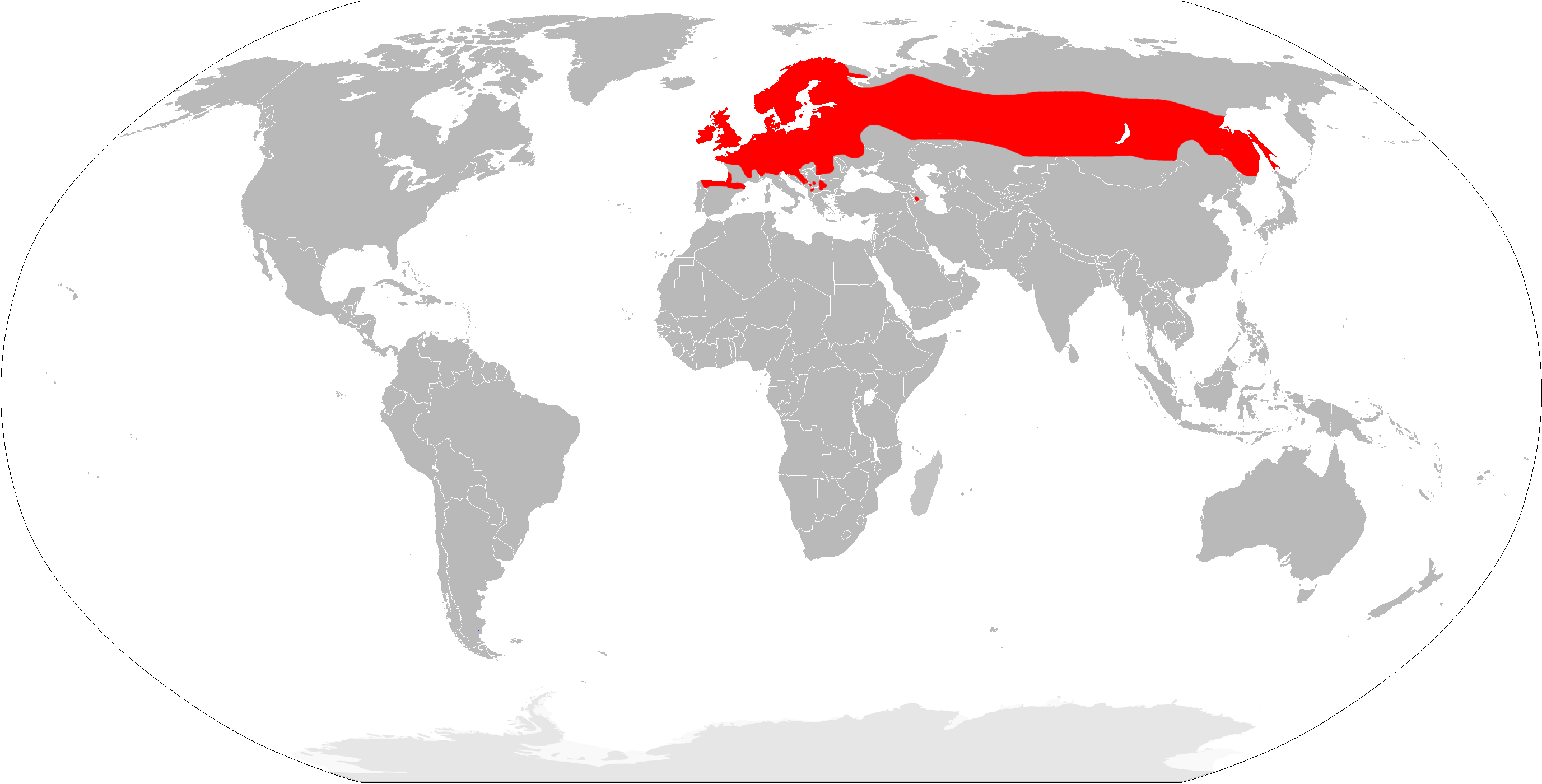 Zootoca vivipara range map.